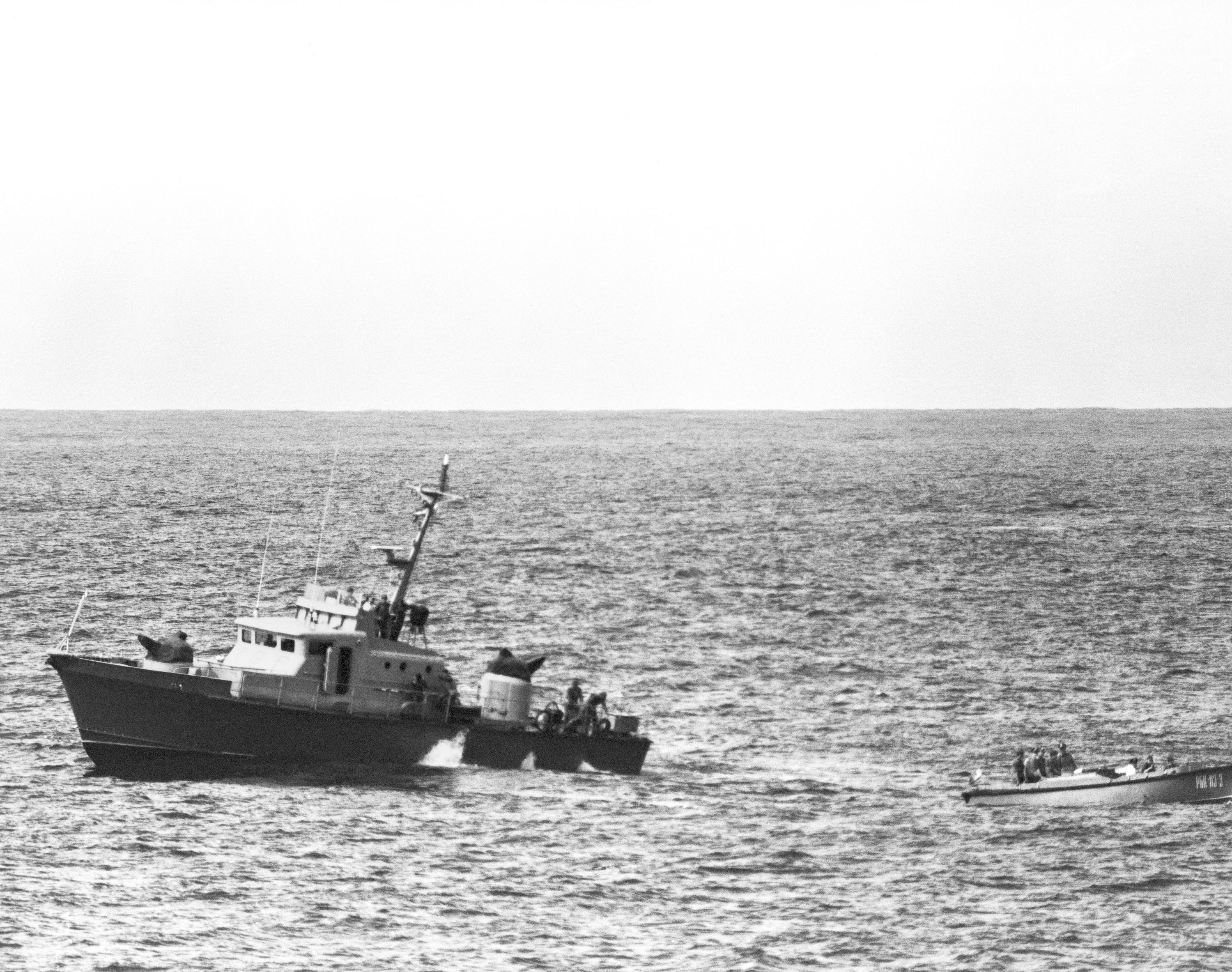 A port bow view of a Soviet-built project 1400 (Zhuk class) Cuban patrol boat.